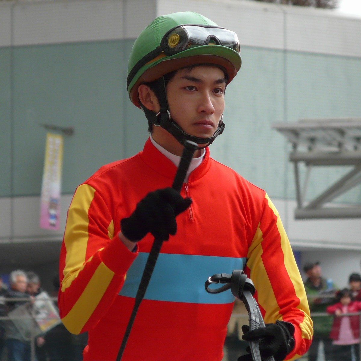 Bunshi-Funabiki20100228